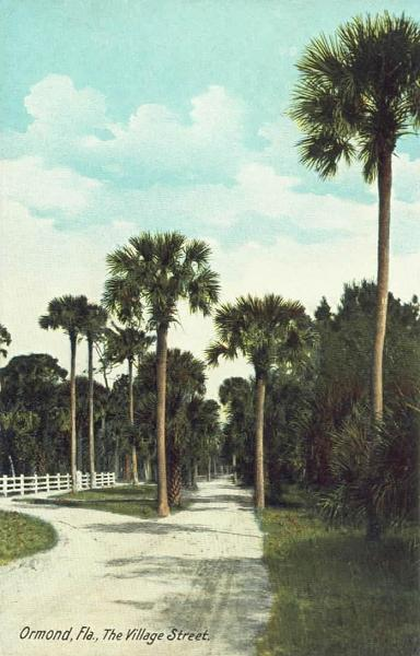 The Village Street, Ormond, Florida — from a c. 1908 postcard. With native Sabal palmetto (cabbage palm) trees.